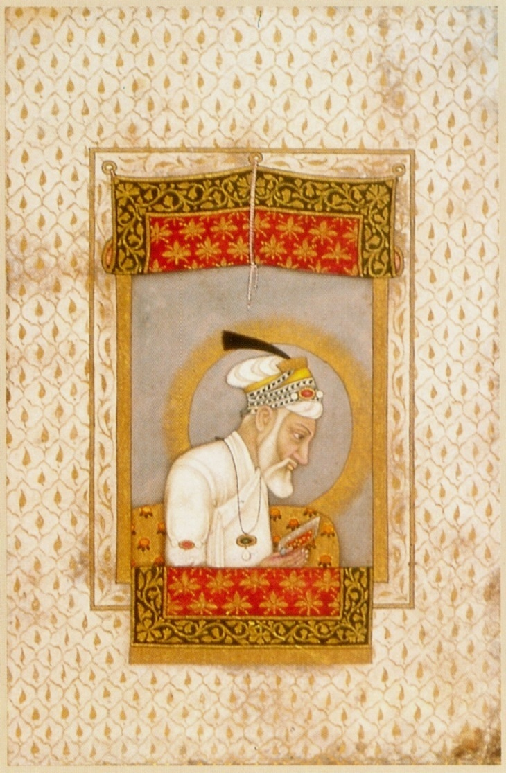 Aurangzeb in his old age. ca. 1700, British Library, London. 11,4x7,8 cm